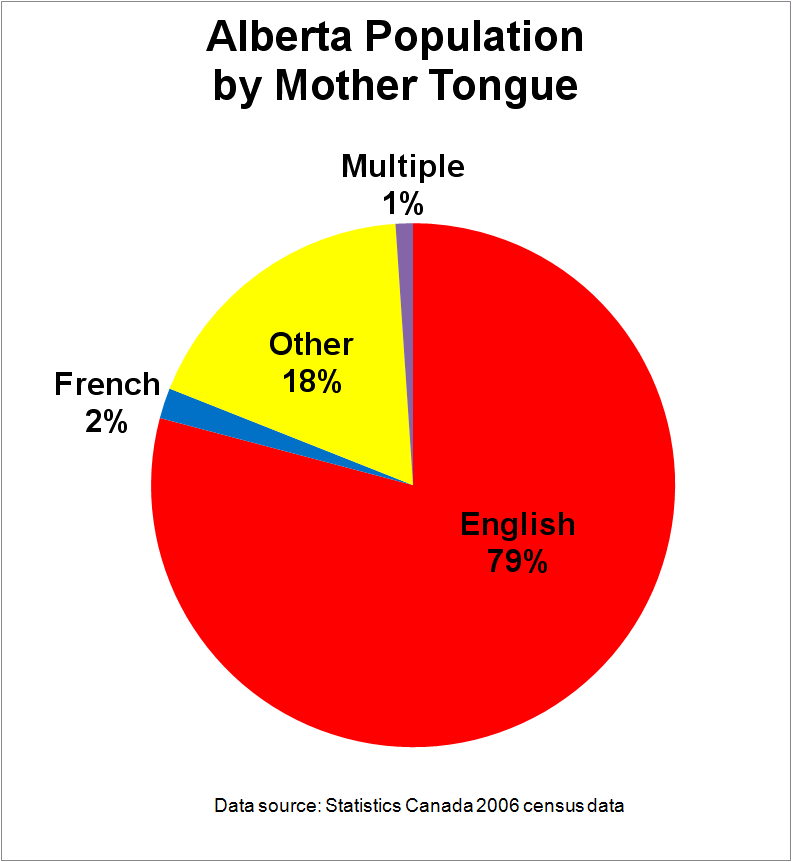 Pie chart of Alberta population by mother tongue from Statistics Canada 2006 census data